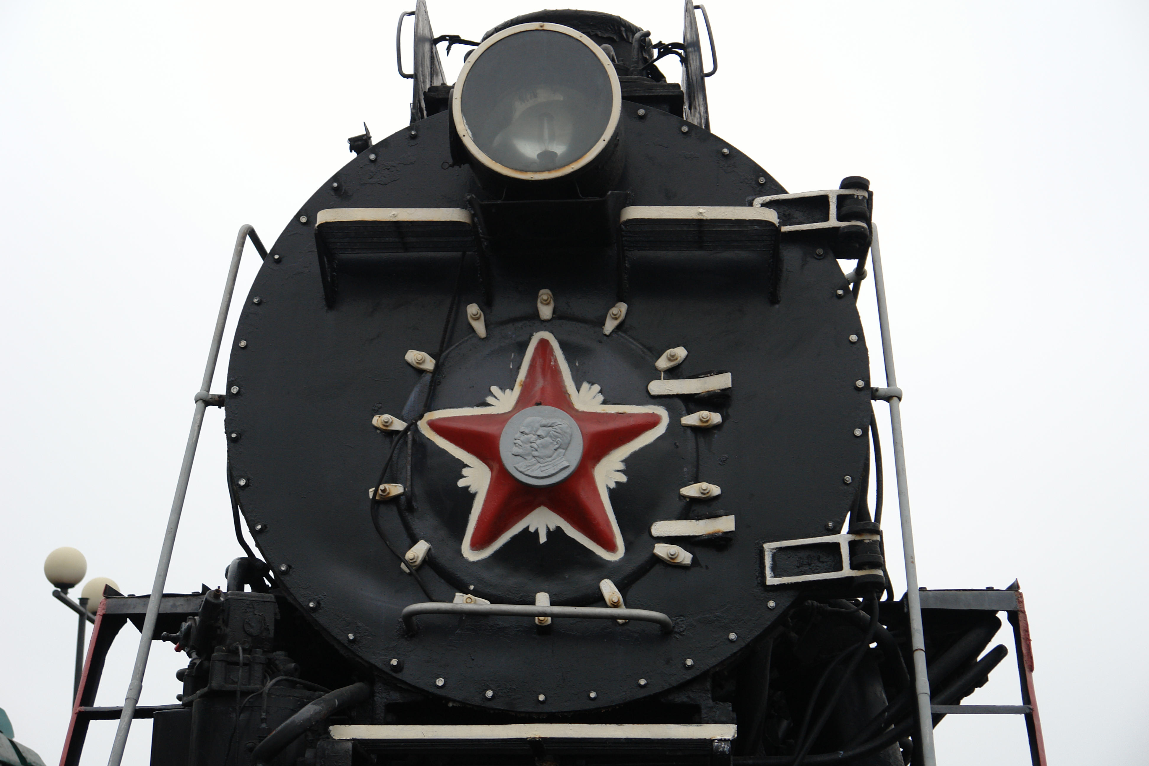 Cargo locomotive OF LVY8-002 (ORY8-002) Weight steam in working order:without tender12 tonsstenderom130 tonnesKonstruktsionnaya speed80 km / h.maximum power at the rim of the wheel2600 PS Built in the Voroshilovgradskim Parovozostroitelnym factory. The October Revolution of 1953. Served at Moskovsko-Ryazanskoy and Northern Iron roads until 1982. Ispolzovalsya as boiler enterprise "Komiavtostroy." Delivered to the museum in the city of Syktyvkar, in 1996. Railway Technology Museum, St. Petersburg